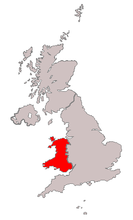 The Welsh Football Association’s jurisdiction